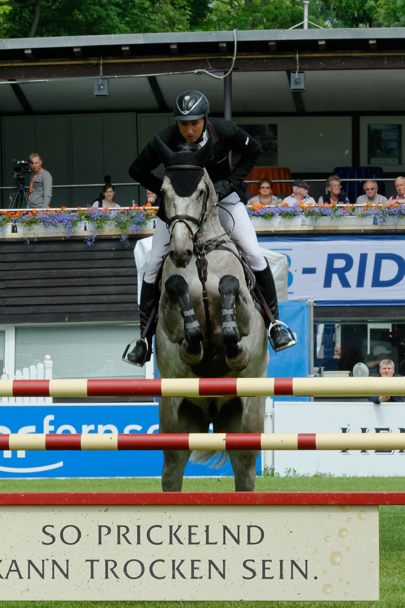 CSIYH* int. Springprüfung nach Strafpunkten und Zeit Internationales Pfingstturnier Wiesbaden 2015 The making of this document was supported by the Community-Budget of Wikimedia Germany.